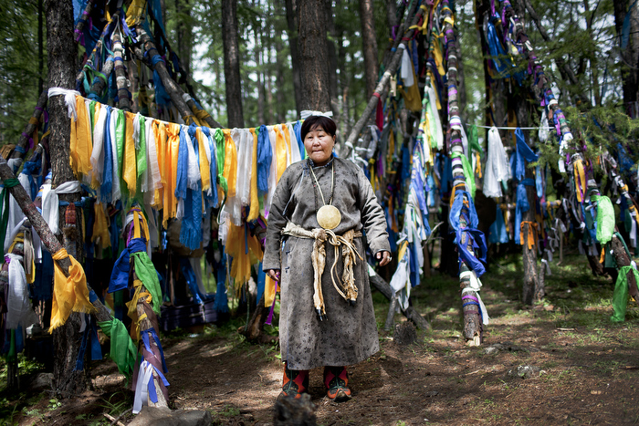 A Tsaatan shaman in northern Mongolia prepares for a ceremony. Khovsgol Province, Mongolia.